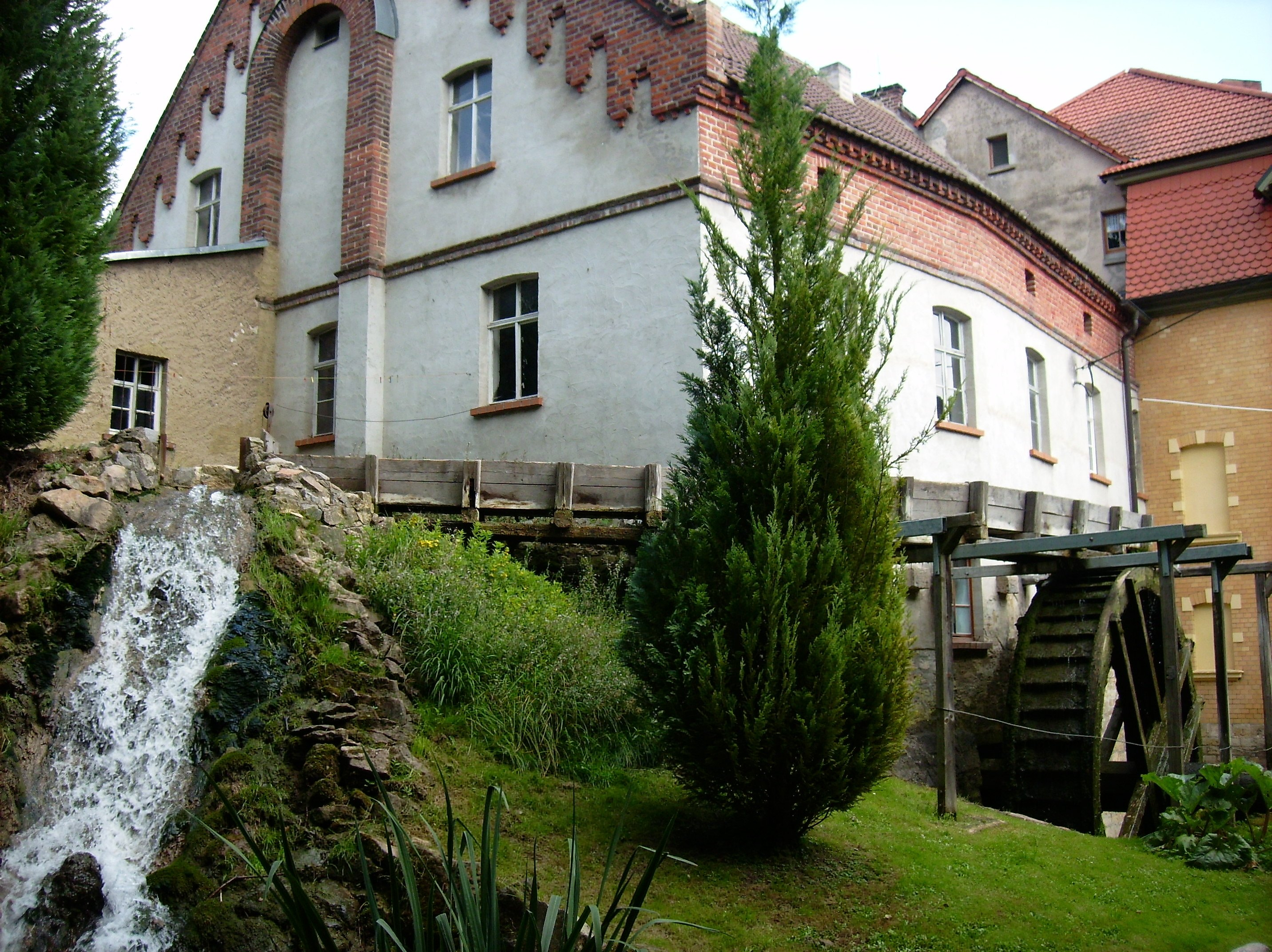 Untermühle ("Lower mill") in Wetterscheidt (Mertendorf, district of Burgenlandkreis, Saxony-Anhalt)